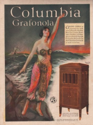 Columbia Grafonola Type O-5